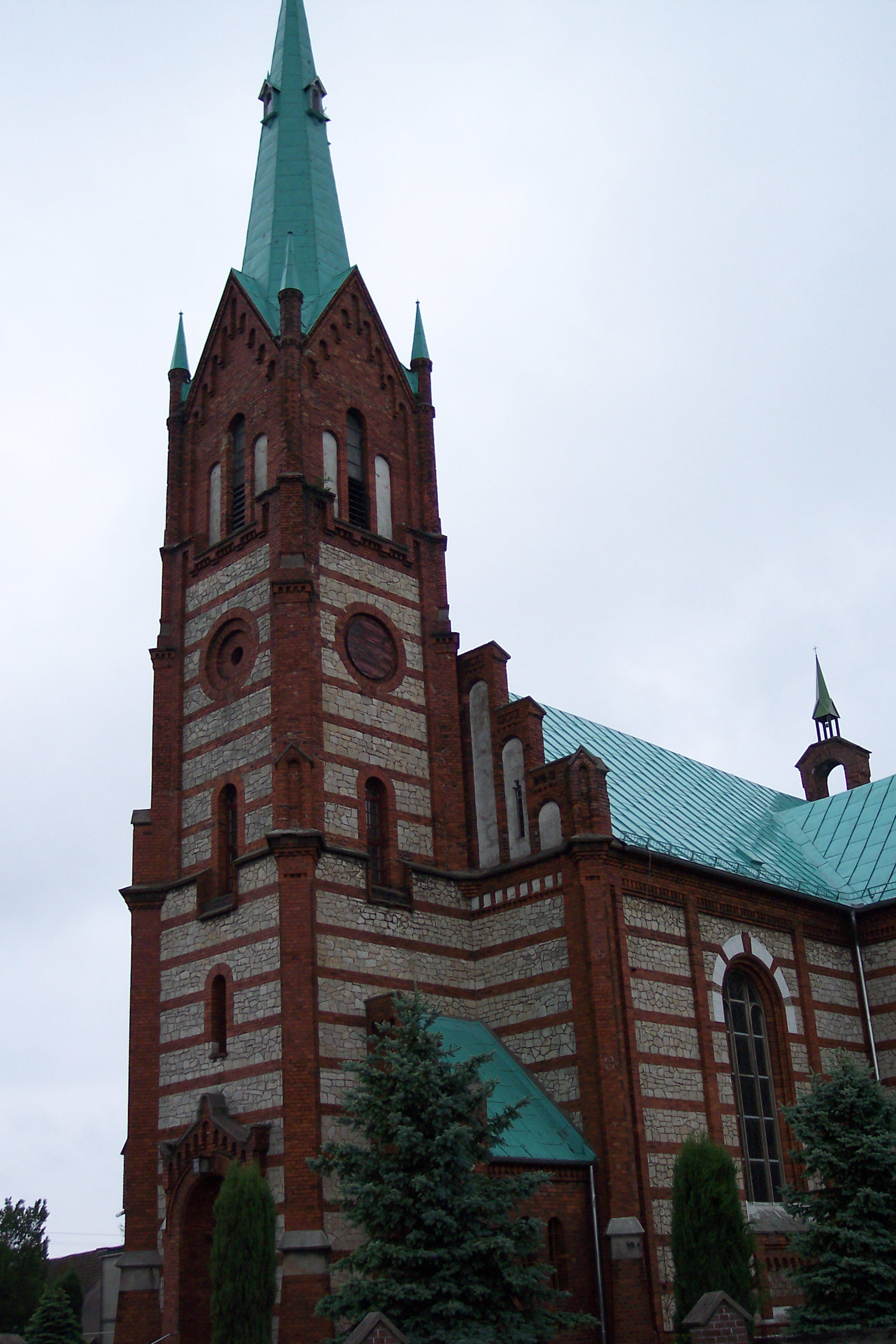 Church in Staniszcze Wielkie/Poland